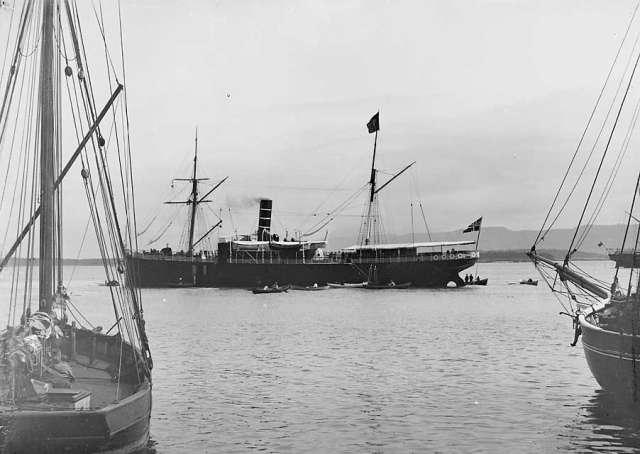 Norwegian coastal express ship (Hurtigruten) DS Sirius in Molde